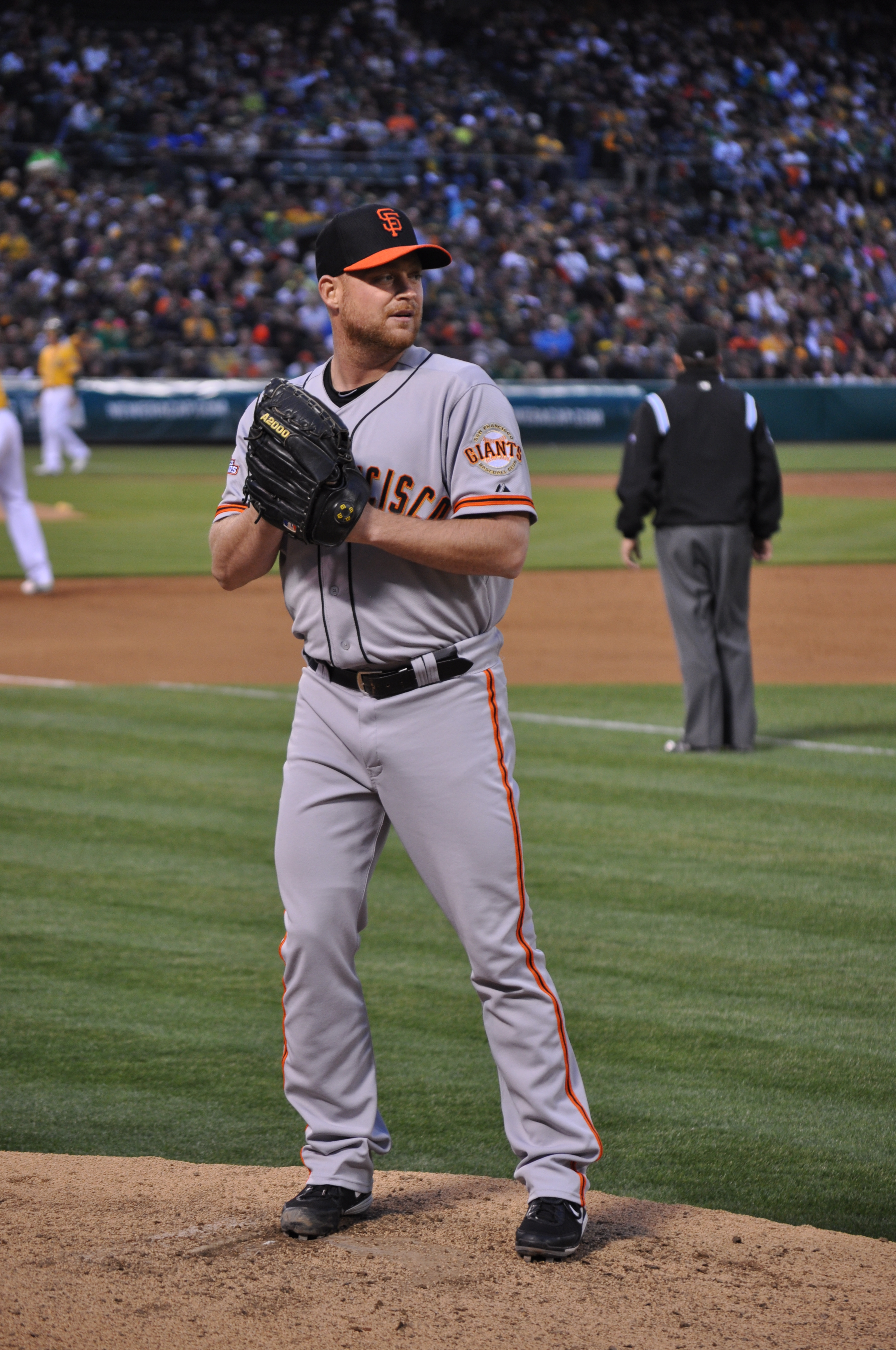 Gaudin warms up before entering the 5/28/13 A's-Giants game